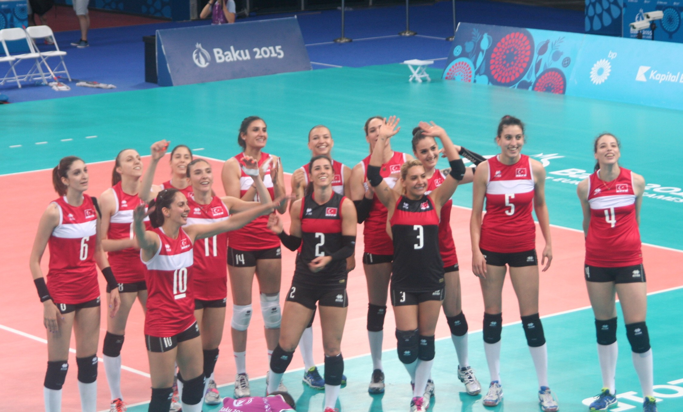 Turkey women's volleyball are the winners of the 2015 European Games.